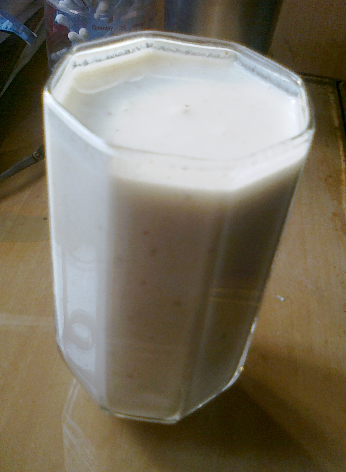 mattha or spiced buttermilk